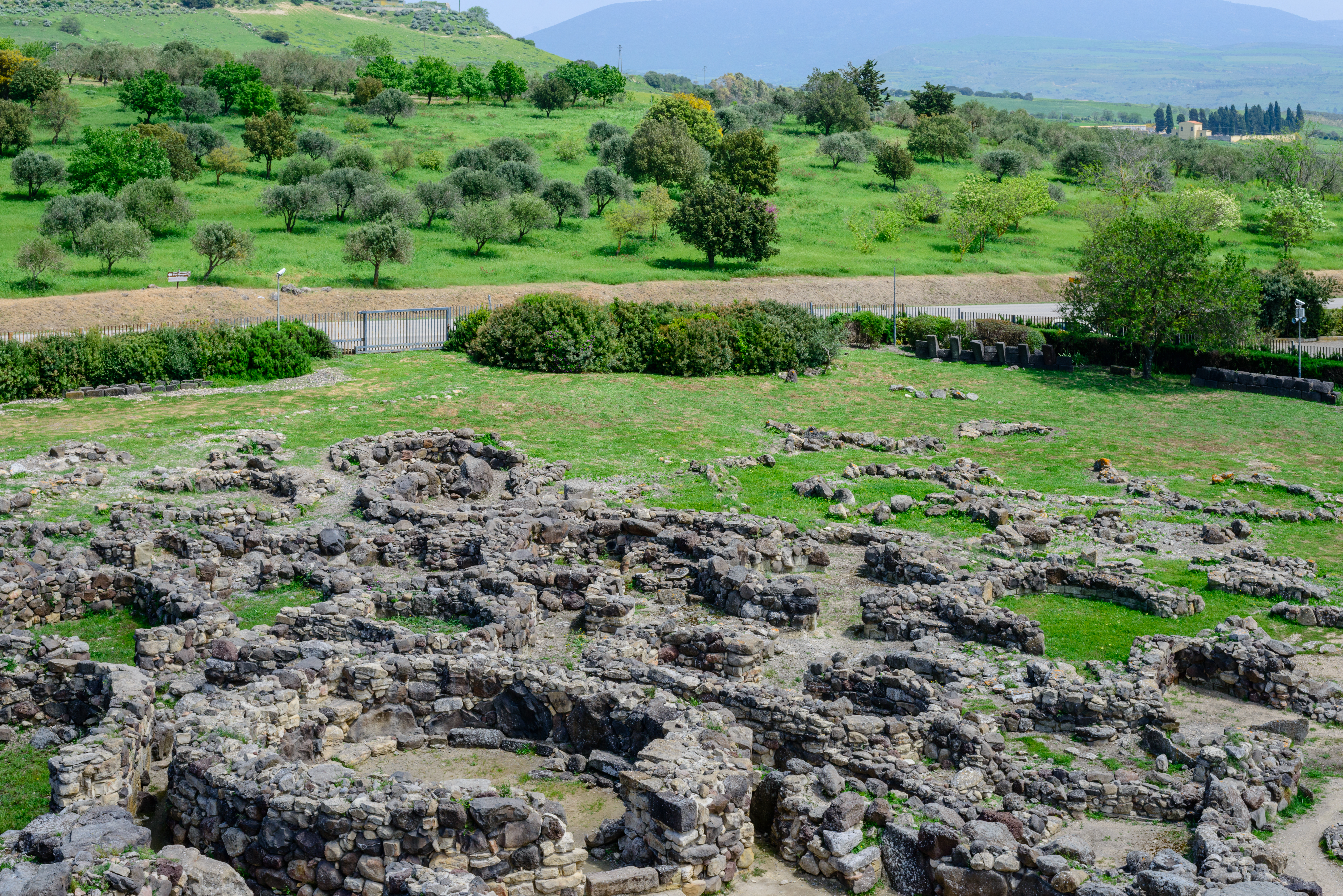 View of the village from the central tower. Su Nuraxi is a nuragic archaeological site in Barumini, Sardinia, Italy. The complex is centred around a three-storey tower built around the 16th century BC.